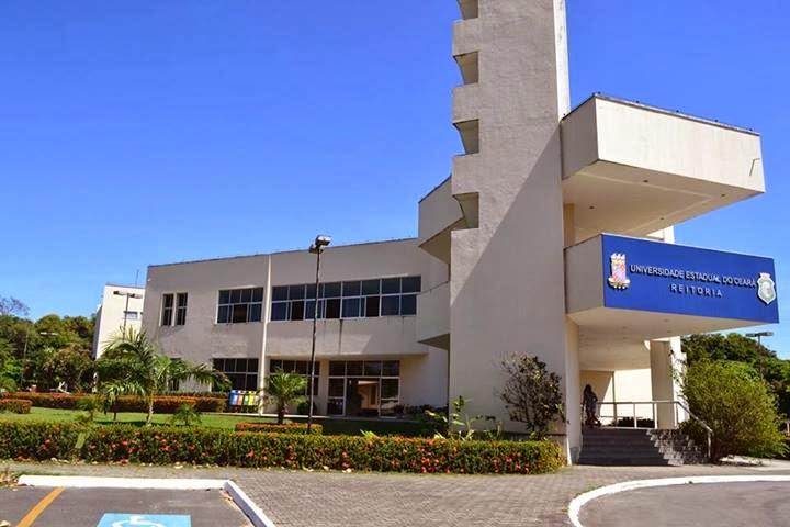 Reitoria da Universidade Estadual do Ceará